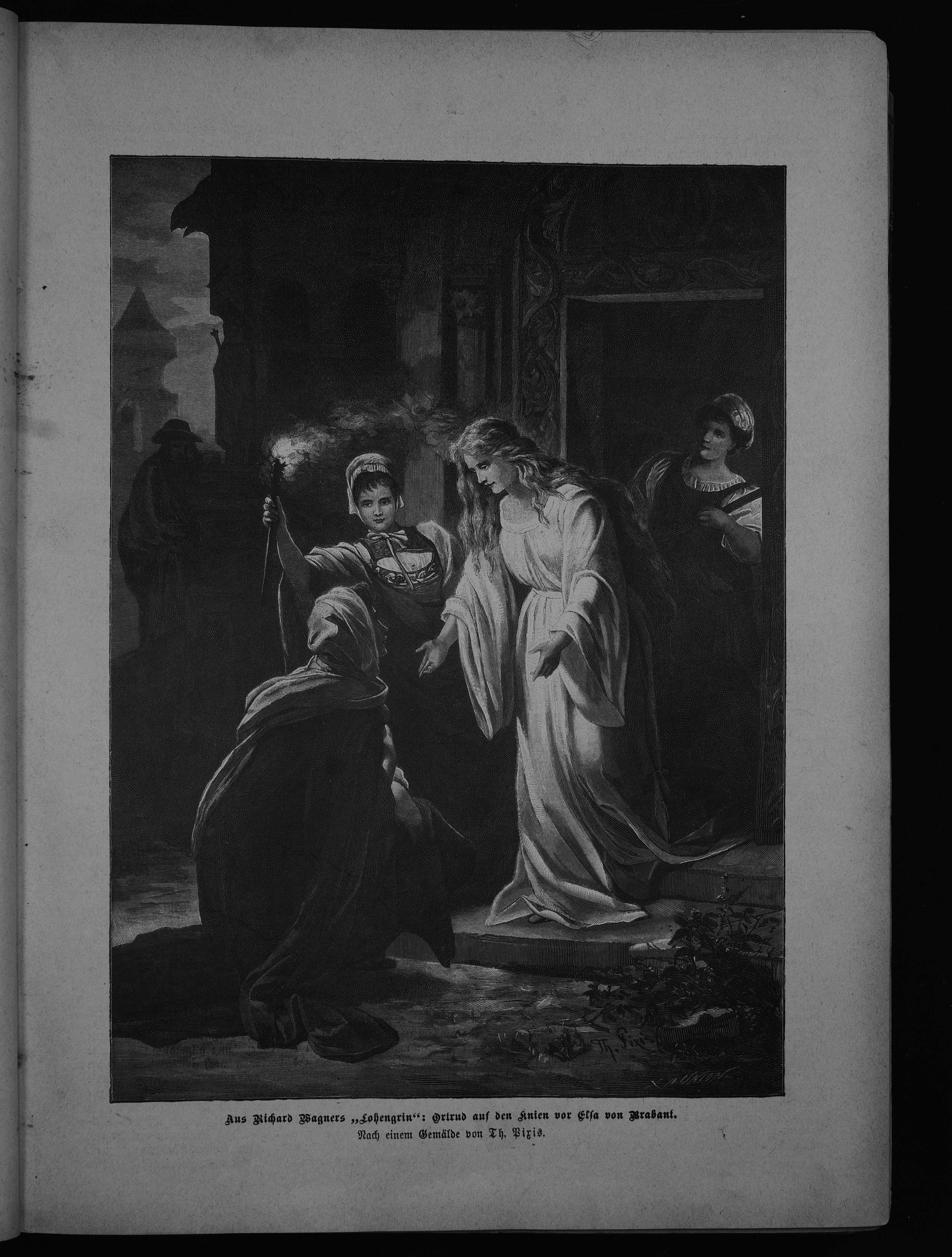 Page 177 from journal Die Gartenlaube for 1894. Extracted image (if any): File:Die Gartenlaube (1894) b 177.jpg - hi res, ~2.5 MB.